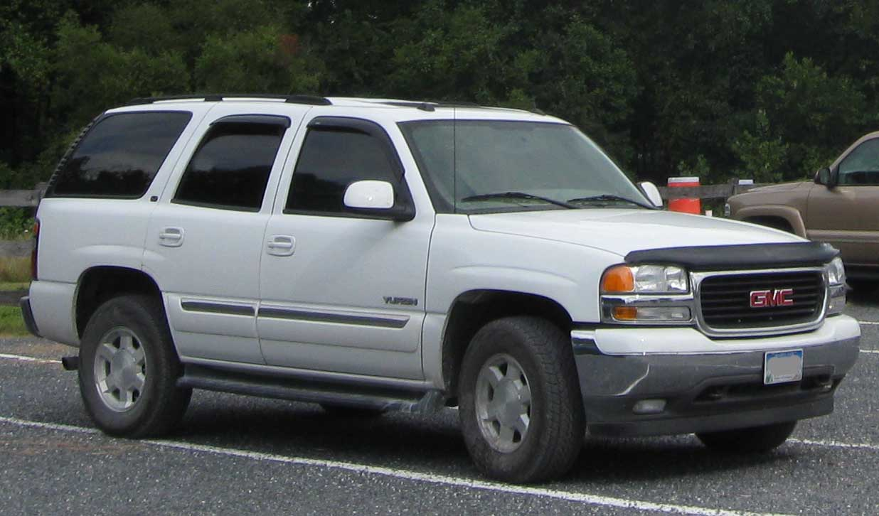 2000-2006 GMC Yukon photographed in Highland, Maryland